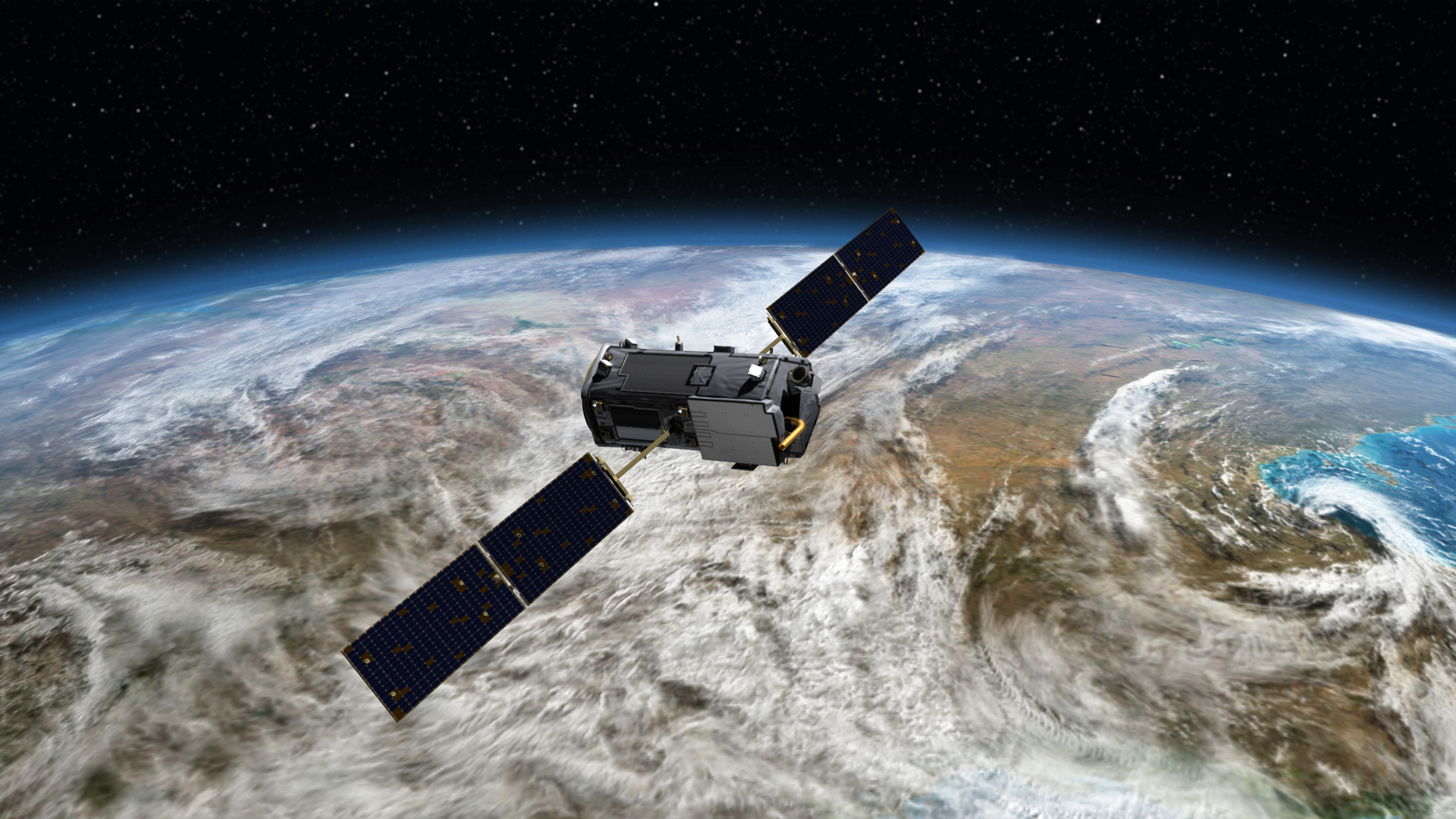 Artist's rendering of NASA's Orbiting Carbon Observatory (OCO)-2, one of five new NASA Earth science missions set to launch in 2014, and one of three managed by JPL. With atmospheric carbon dioxide now at its highest concentration in recorded history, the need to make precise, global, space-based measurements of this key greenhouse gas has never been more urgent. As carbon dioxide levels have increased, so too have uncertainties about them – we don't yet have a clear picture of how these emissions are partitioned between Earth's ocean, land and atmosphere, or how Earth's forests, plants and ocean will respond to increasing levels of carbon dioxide in the future. OCO-2 will address these critical questions to help us better assess the health of our warming planet. OCO-2, managed by NASA's Jet Propulsion Laboratory in Pasadena, Calif., will launch from Vandenberg Air Force Base, Calif., on a Delta II rocket in July, 2014.